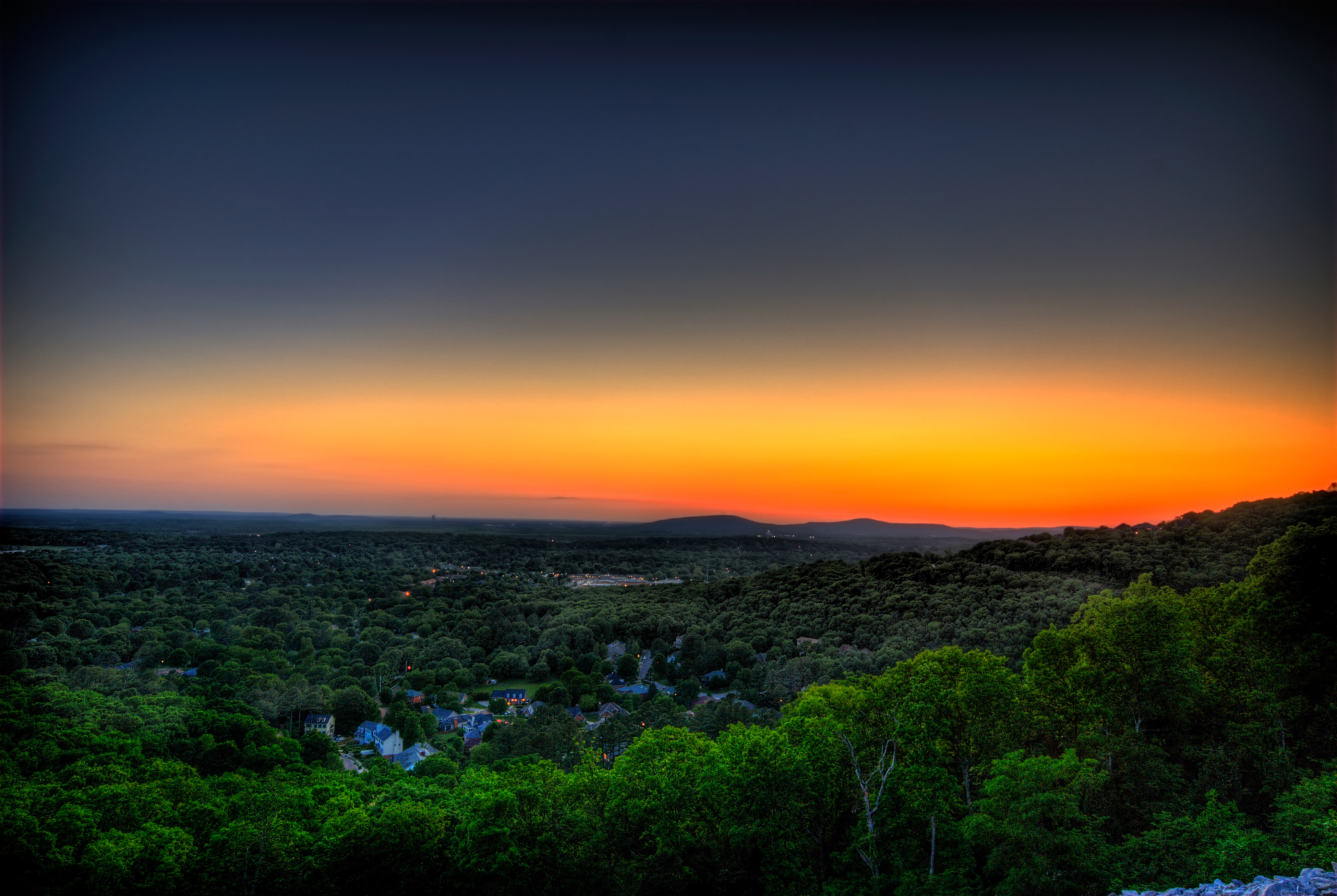 View towards the south and west parts of Huntsville, AL taken on the side of the road leading to a new section of town called Hampton Cove. View On Black